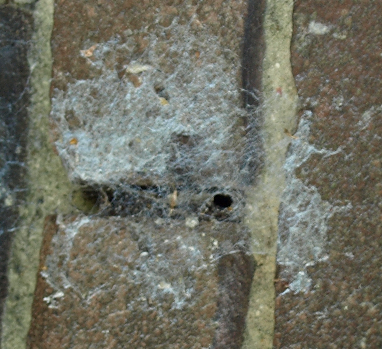 Trying to find out what this is... (It is the funnel web of a spider, identity is the next problem Richard Avery (talk) 10:03, 19 October 2015 (UTC))